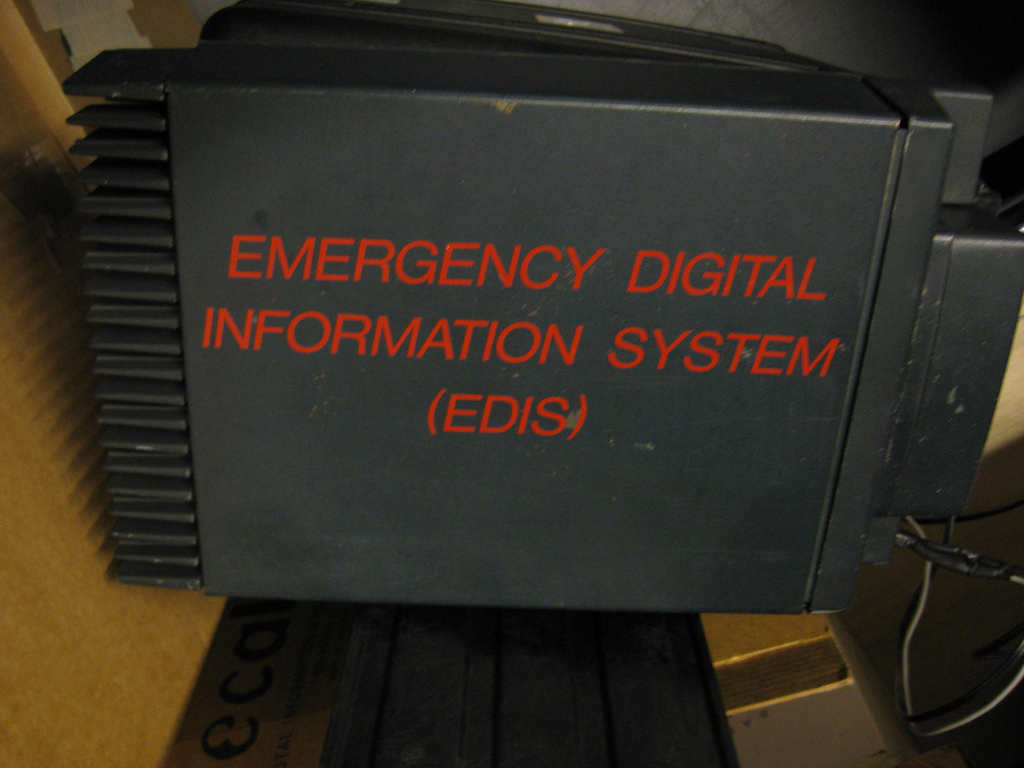 Motorola MOCOM 70 EDIS Radio, picture taken at the Red Cross San Francisco Office.